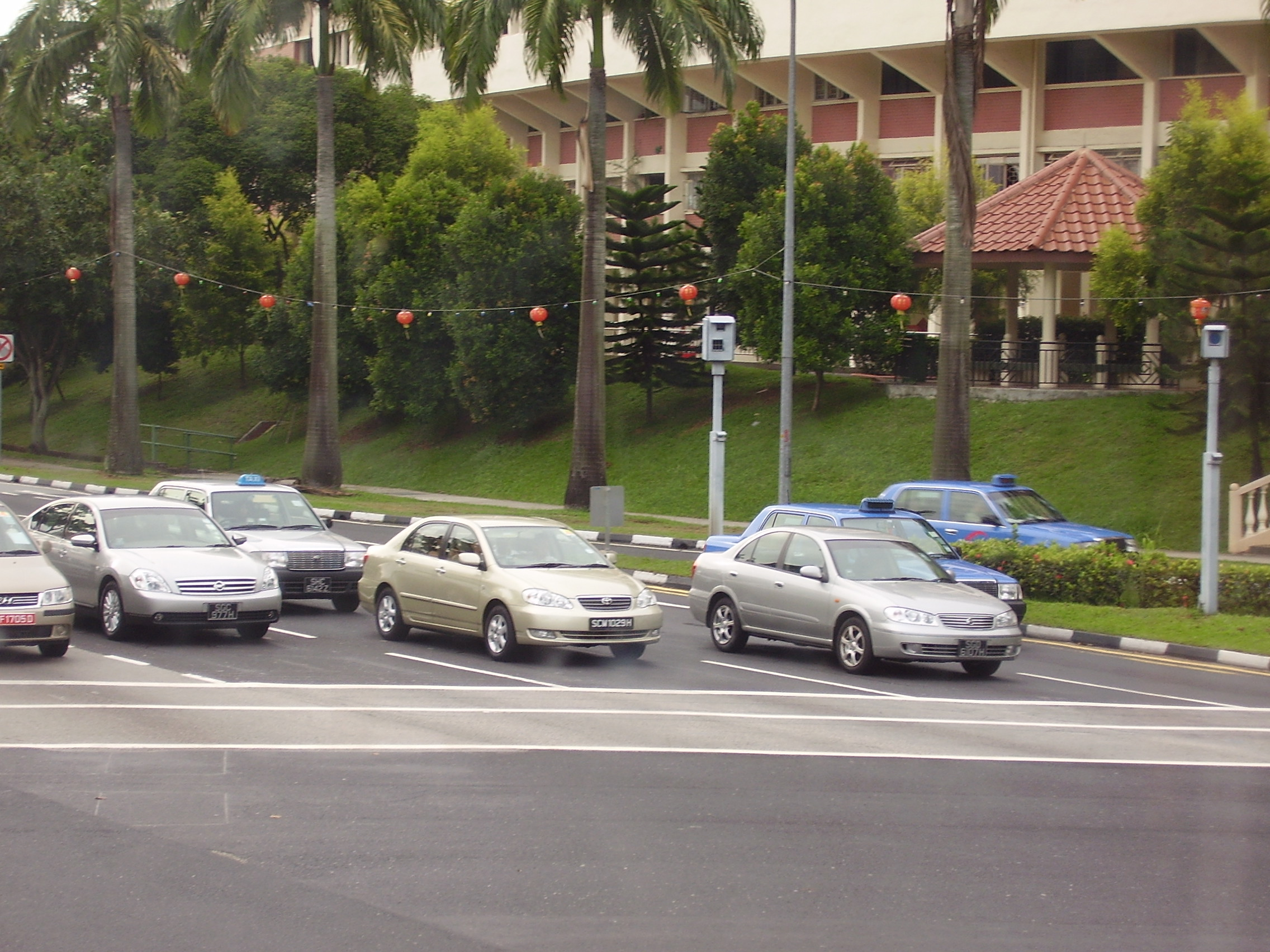 Red light camera at junction.